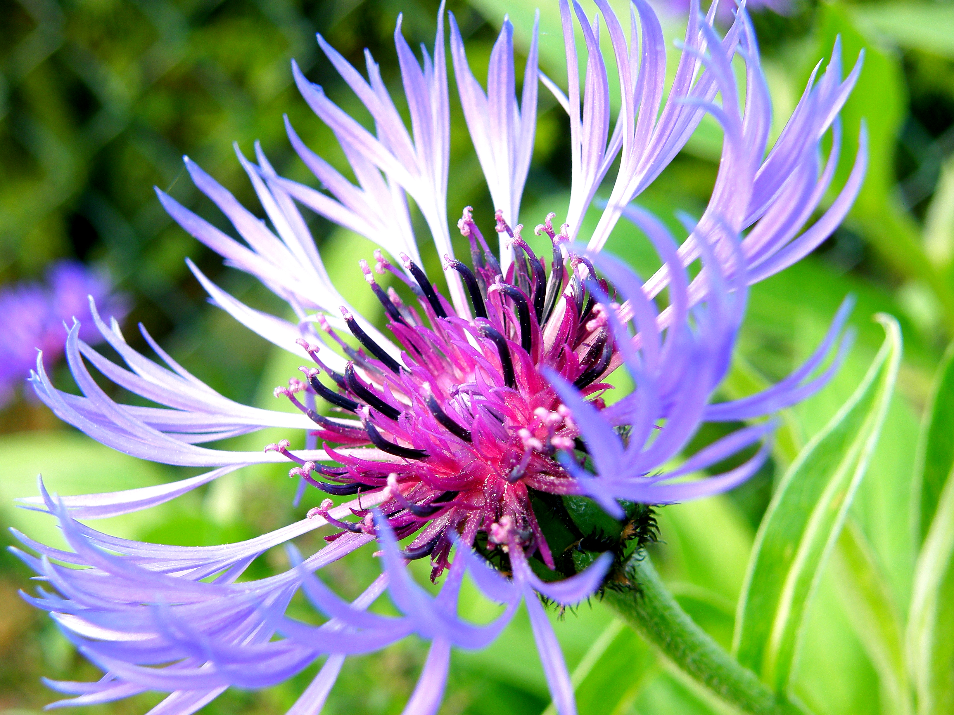 blue cornflower (Centaurea sp.), France